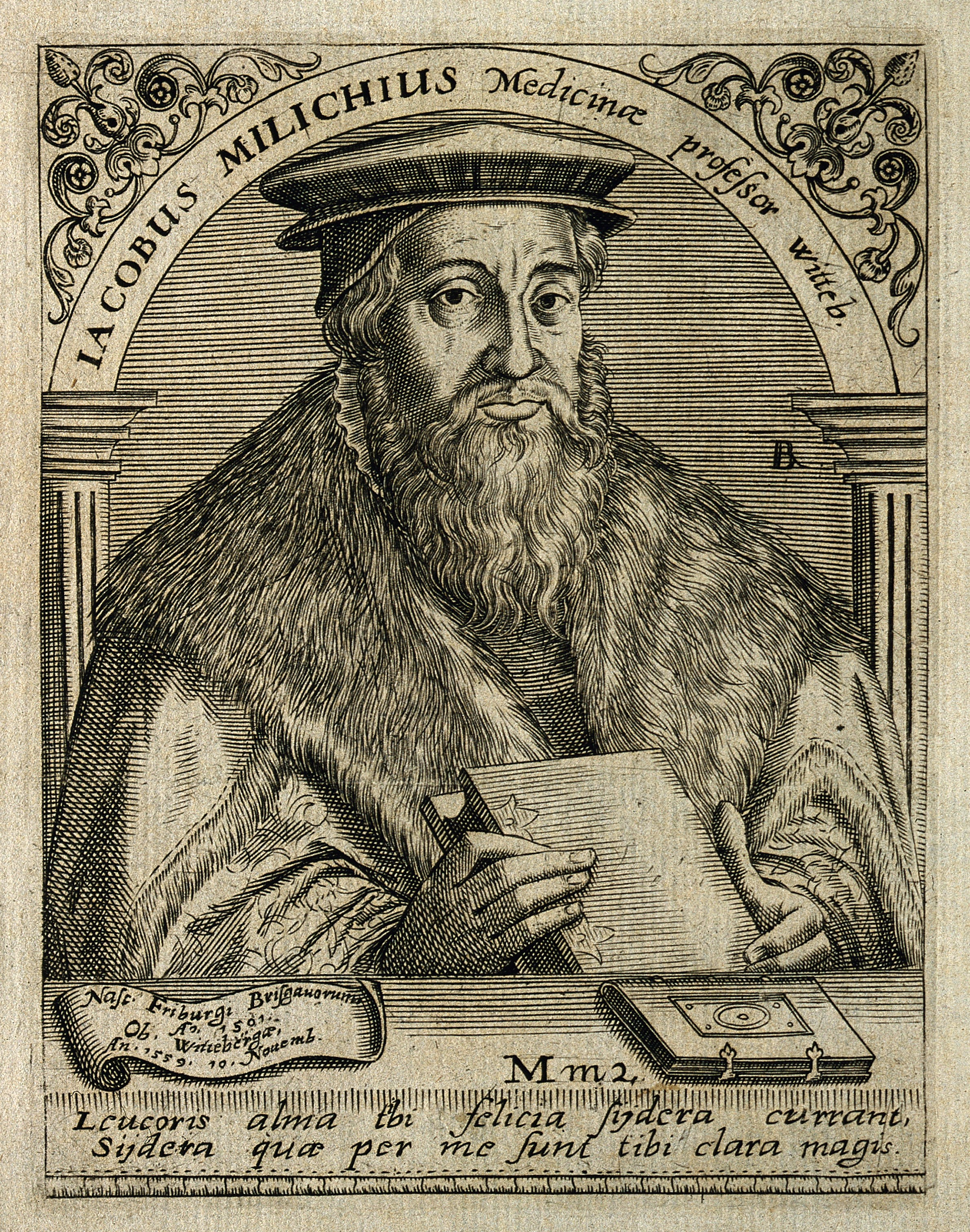 Jacob Milich. Line engraving by T. de Bry, 1650. Iconographic Collections Keywords: portrait prints; Jacob Milich; engravings